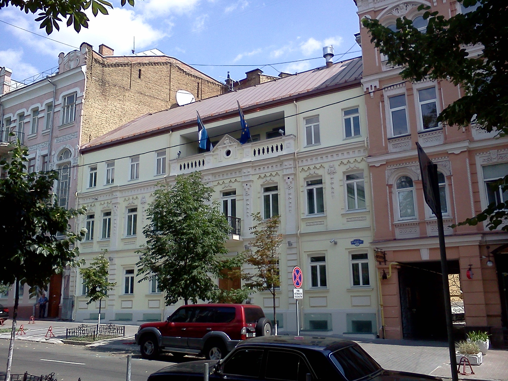 Embassy of Estonia in Kyiv